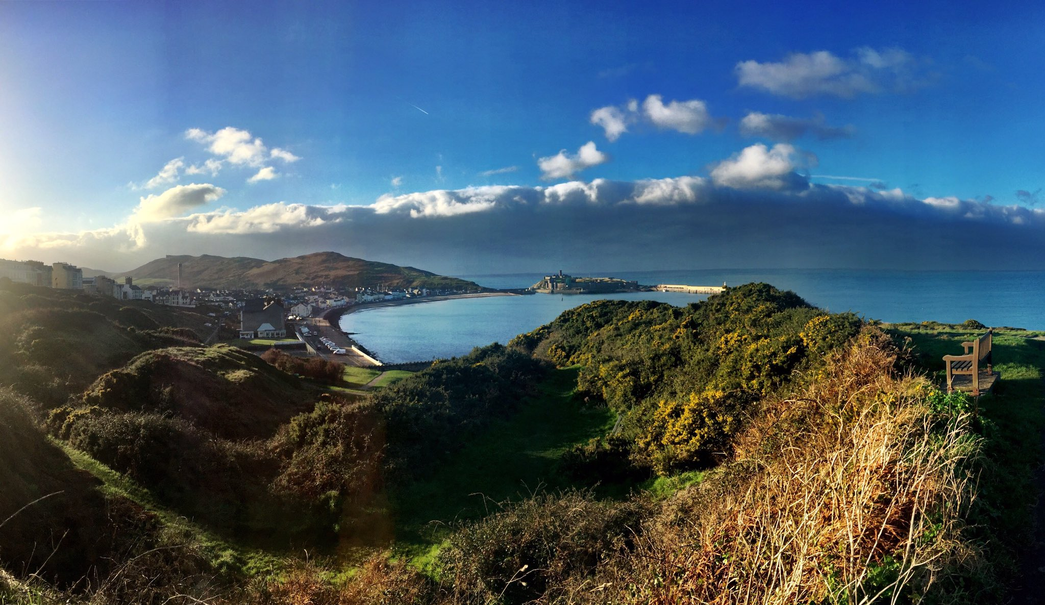 Peel from the headlands north-east of the town, Isle of Man